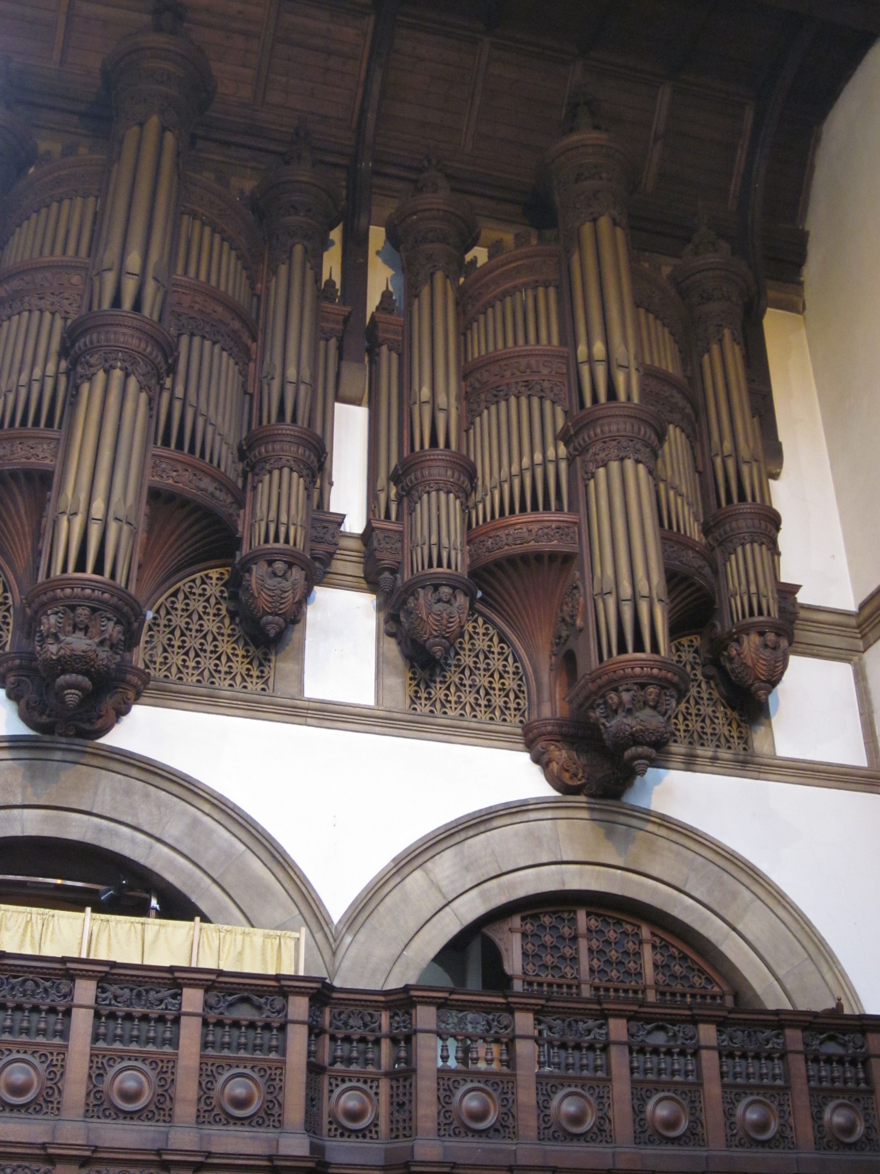 The organ, St Aidan's Church, Leeds, UK. 13 June 1896. Built by J. S. Binns of Bramley. Case by Crawford Hick.